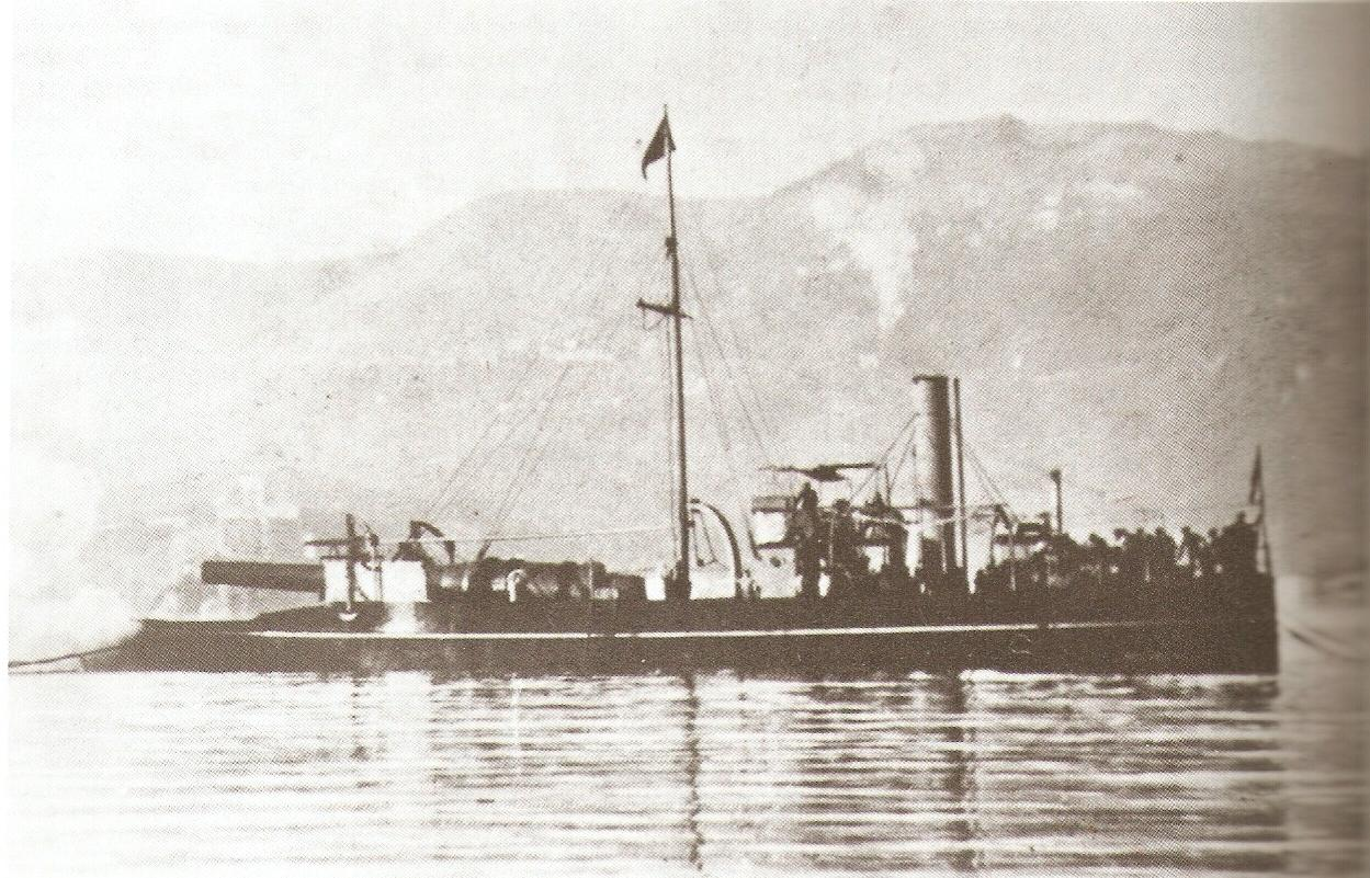 The Italian Castore-class flat-iron gunboat Polluce conducting firing trials of her 40cm/32 gun.